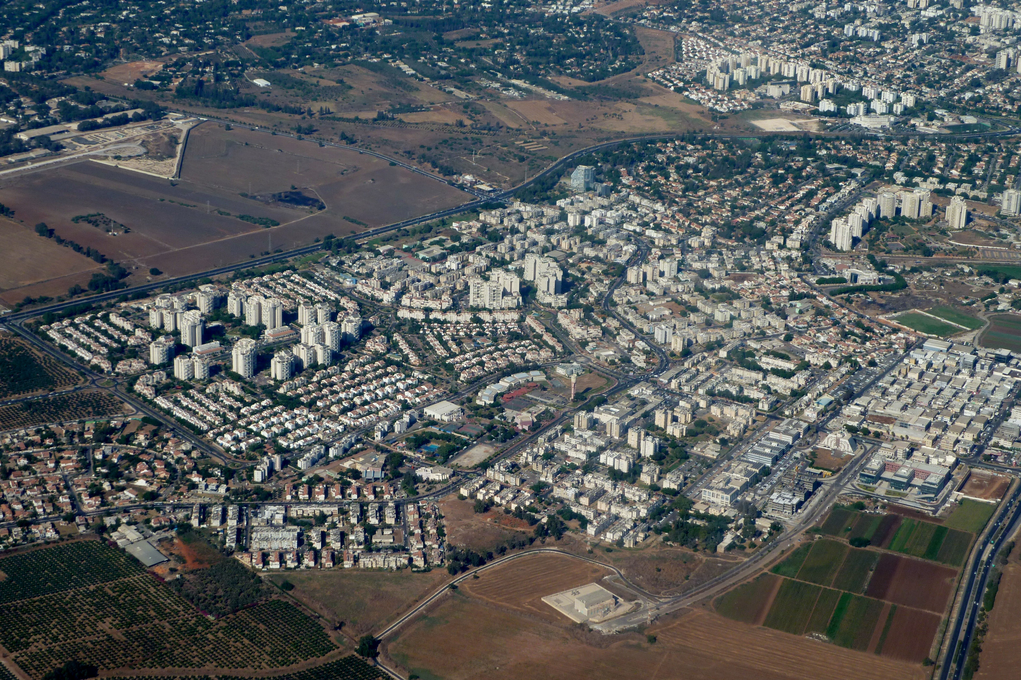 Or Yehuda, Israel. Aerial photograph